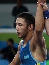 Almat Kebispayev; Rio 2016; Greco-Roman Wrestling 59 kg